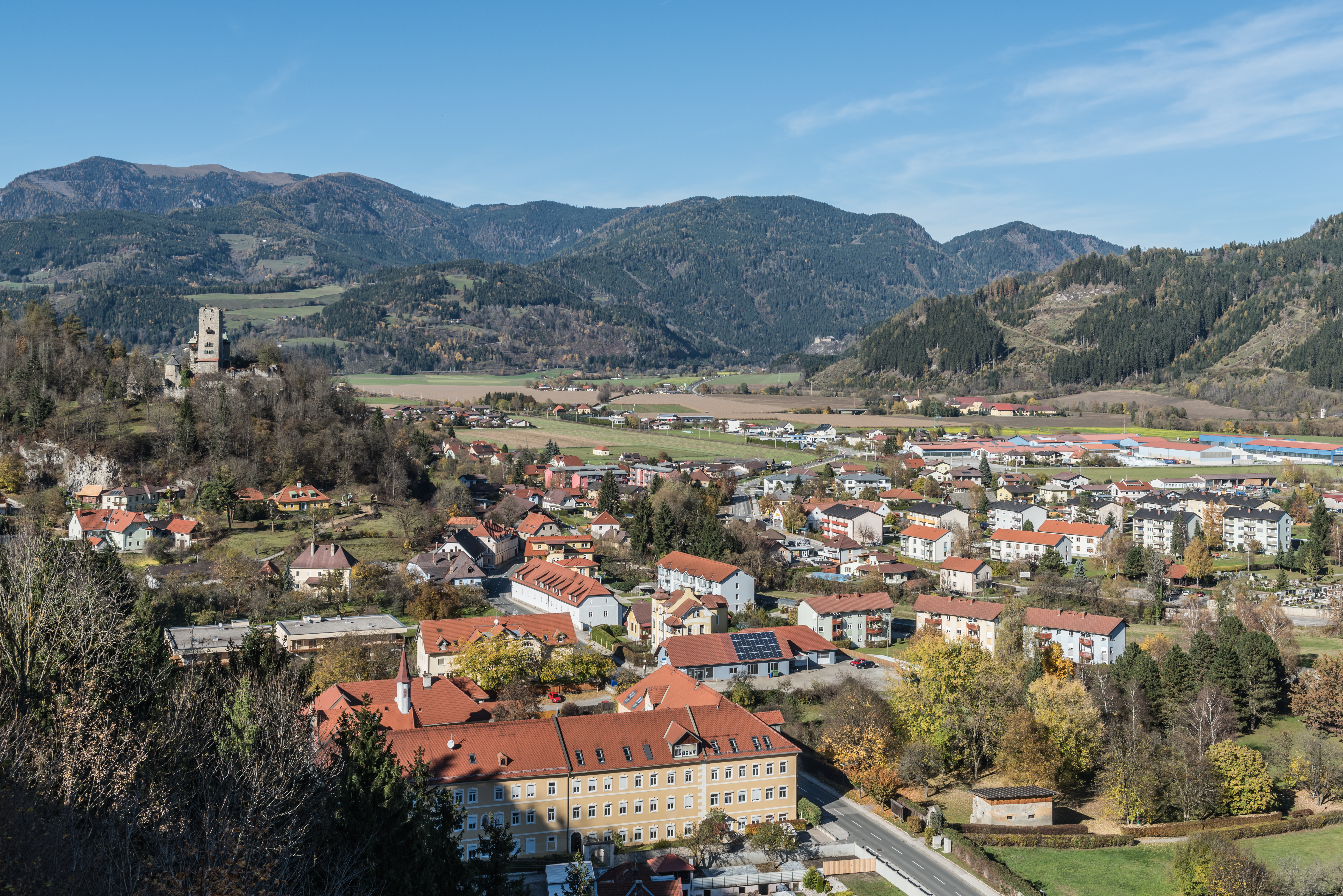 View from Petersberg at the former monastery of female Dominicans on Conventgasse and ruin Geiersberg, municipality Friesach, district Sankt Veit, Carinthia, Austria, EU